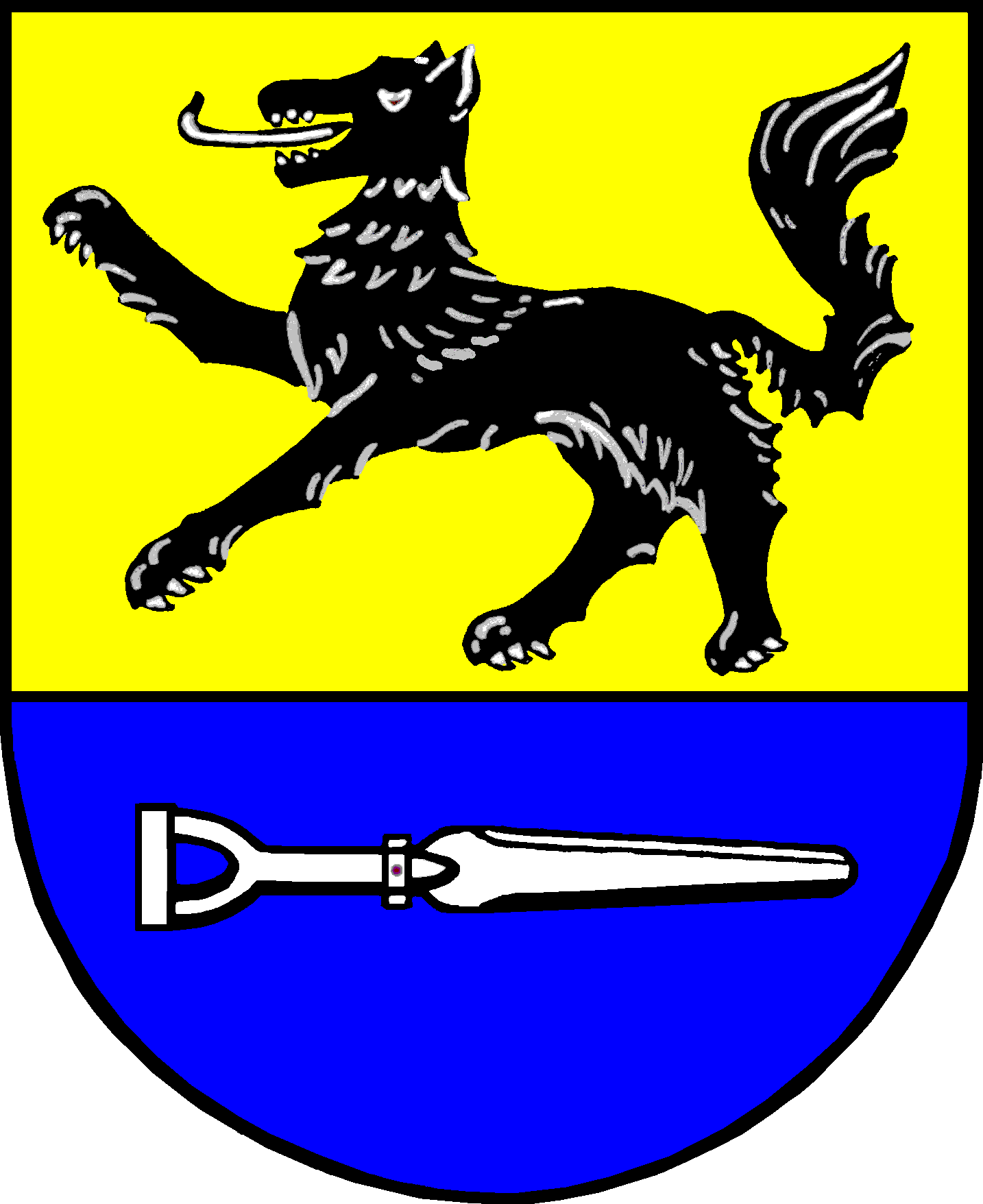 Coat of arms of the municipality Wulfsmoor in Schleswig-Holstein, Germany.